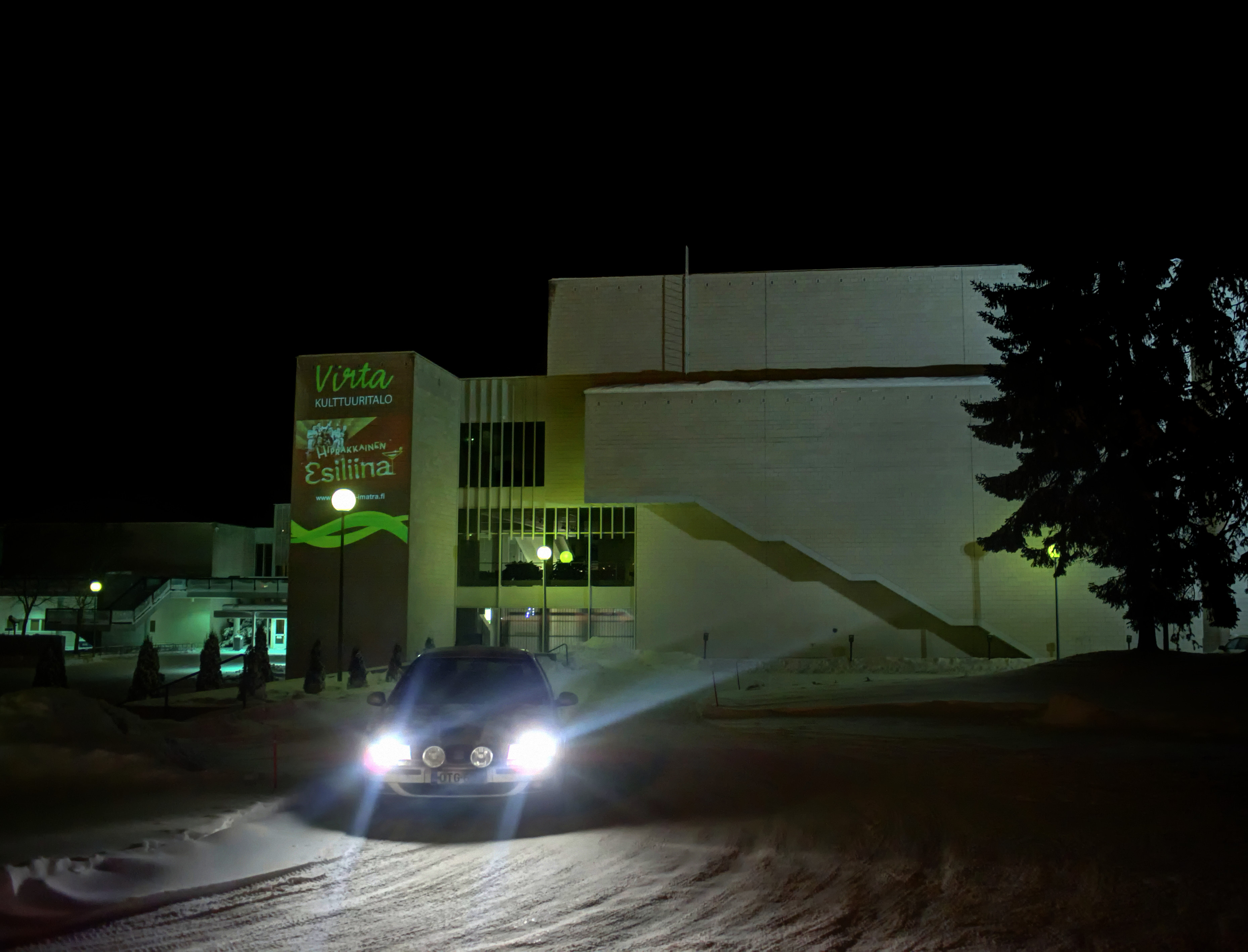 Culture House Virta, Imatra January 14th 2016